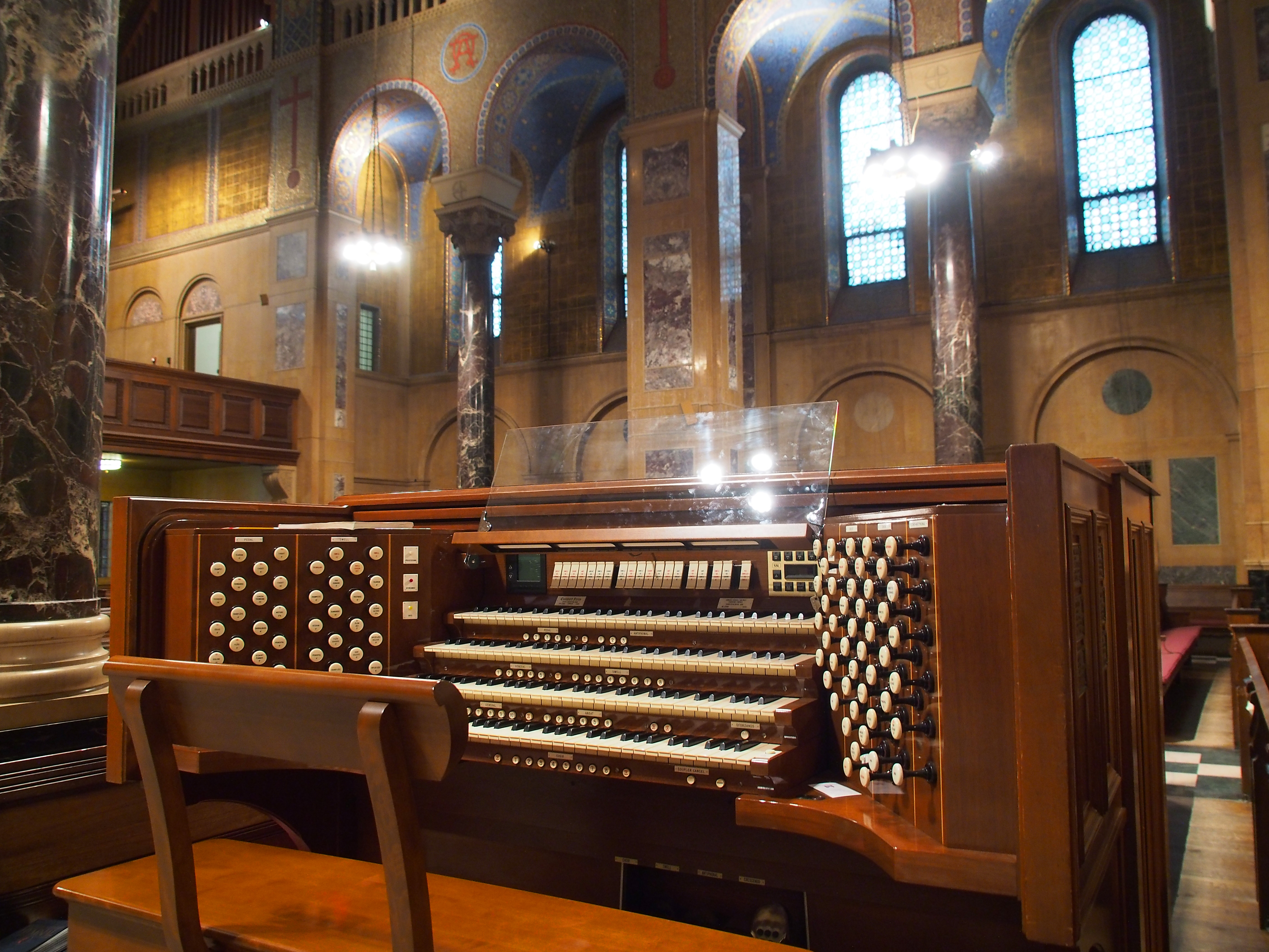 An interior shot at the Christ Church NYC and its organ. Site: Christ Church NYC